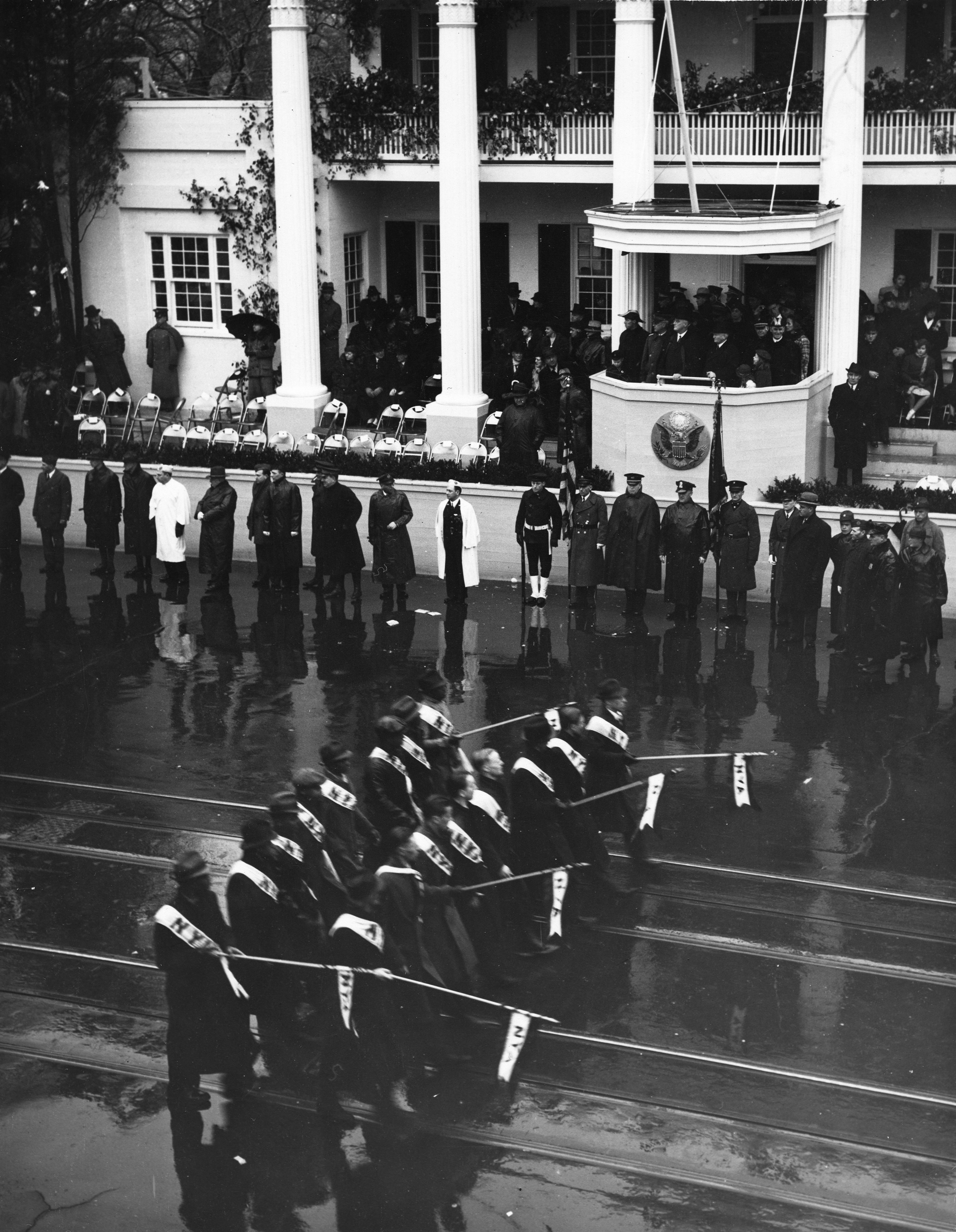 FDR watches the Inaugural Parade from replica of Andrew Jackson's "Hermitage" in front of the White House with Vice President John N. Garner and members of his family. January 20, 1937.